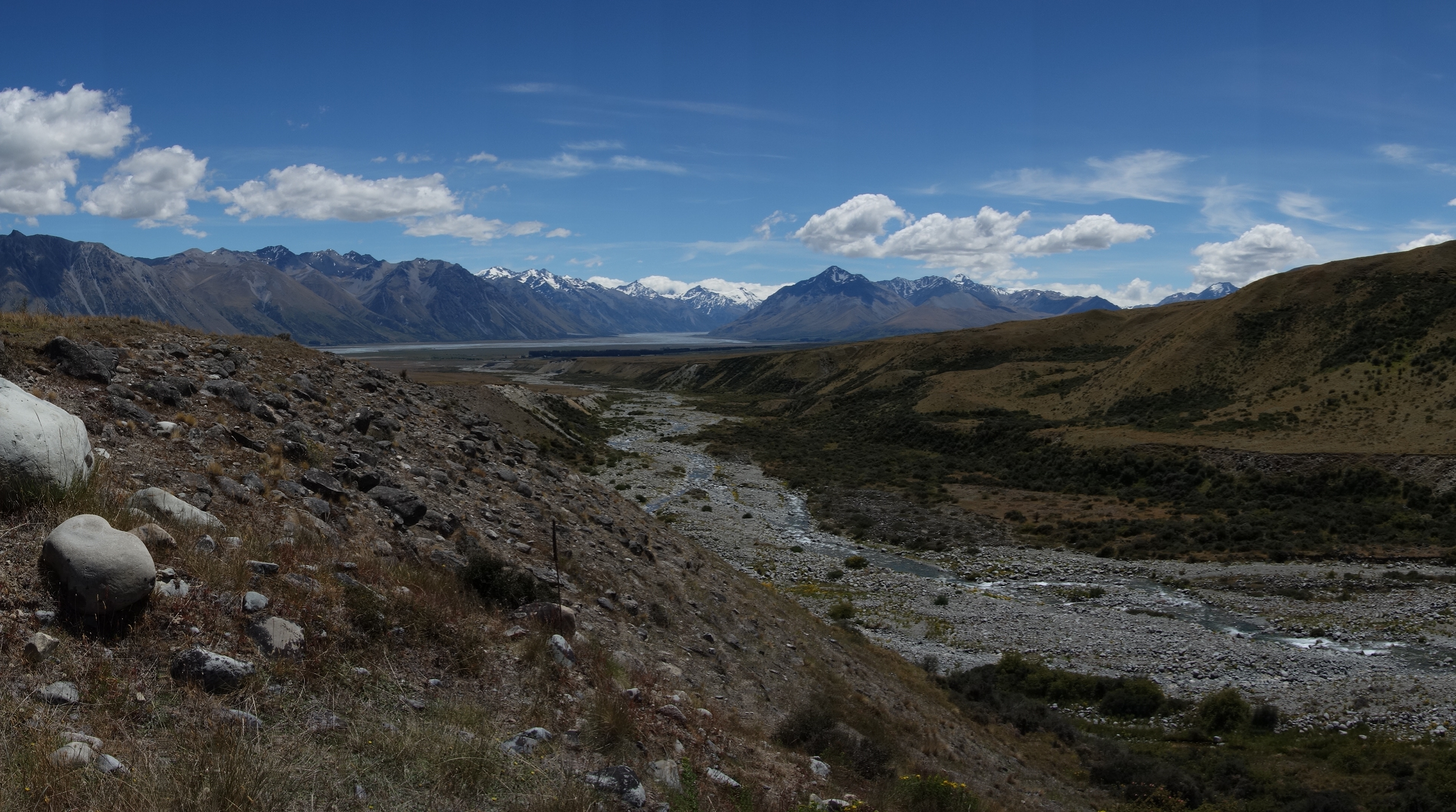 Coal River